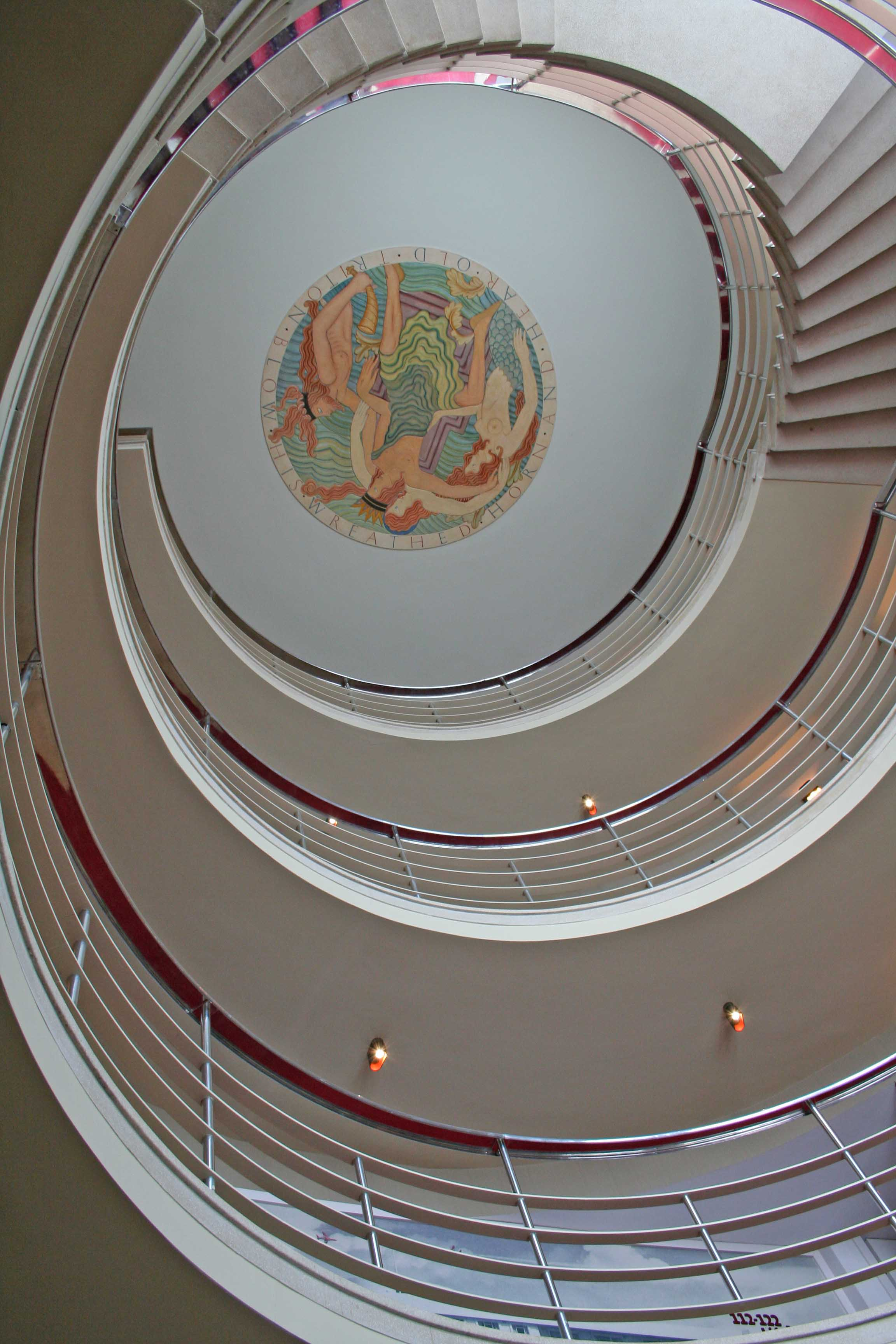 A staircase at Midland Hotel, Morecambe, Lancashire, England. Eric Gill's Neptune and Triton Medallion is on the ceiling of the staircase.